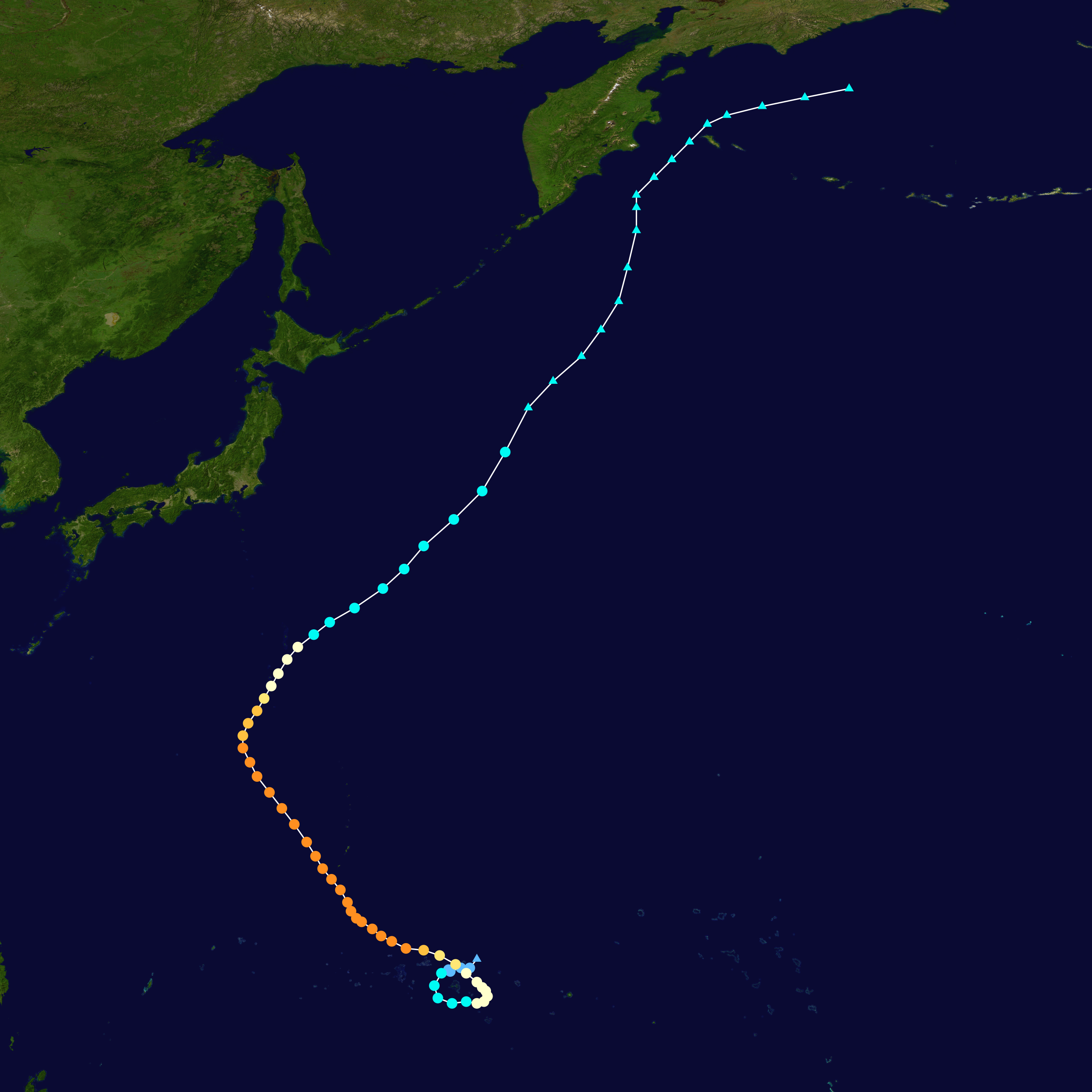 Typhoon Pamela 1976 track. Uses the color scheme from the Saffir-Simpson Hurricane Scale.